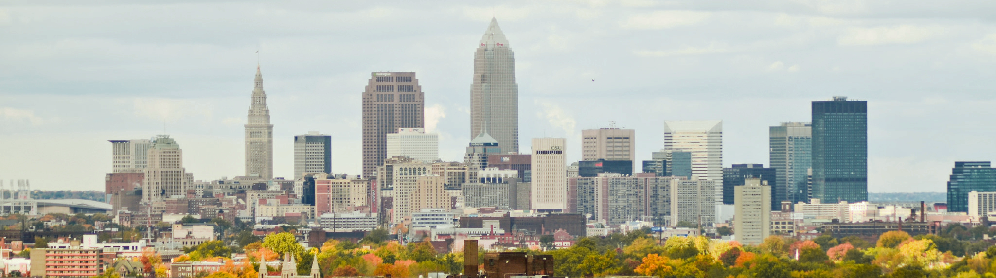 University Circle by Flickr user Erik Drost Image cropped and color balance adjusted from original